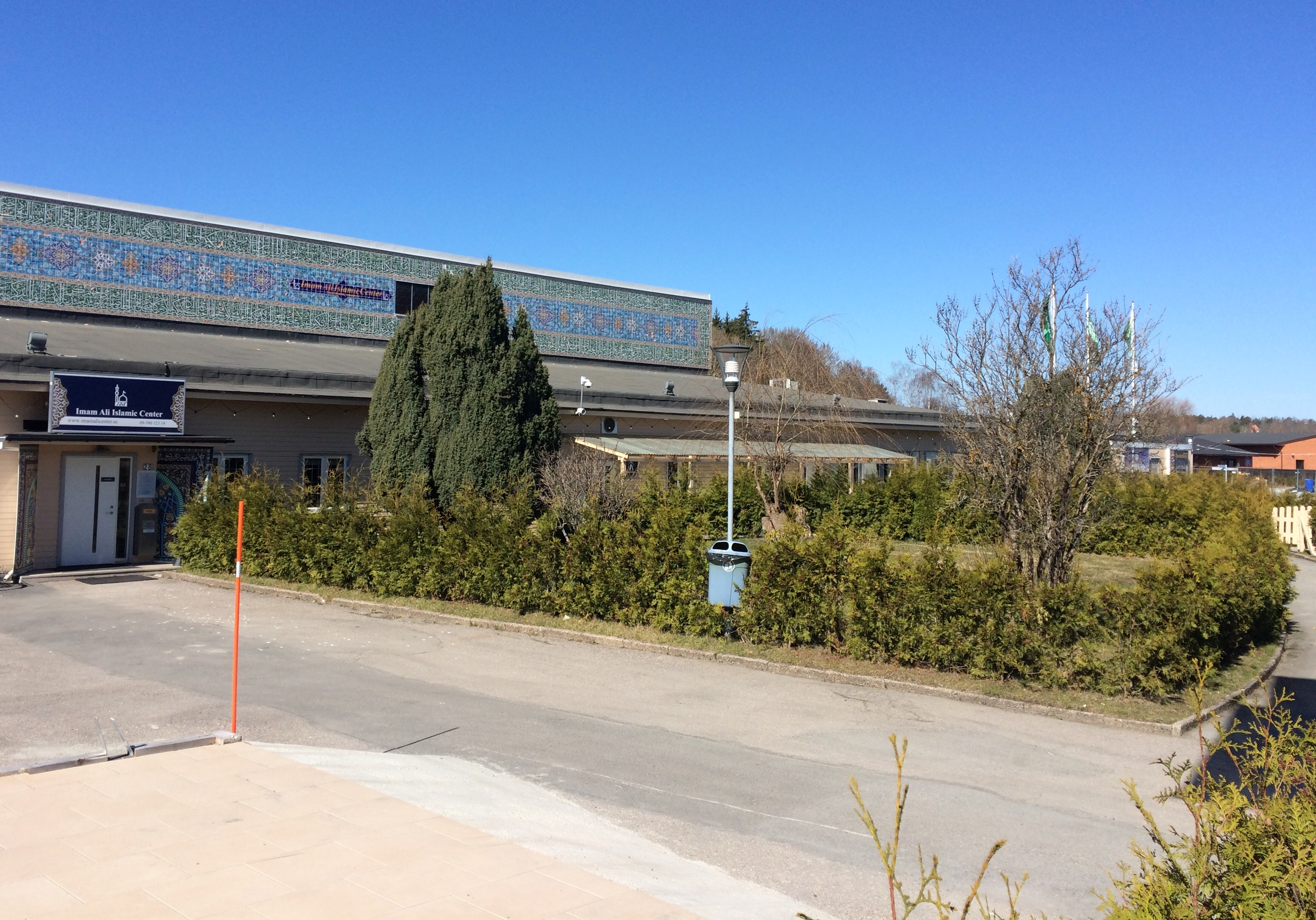 The front of Imam Ali Islamic Center in Järfälla during the day.